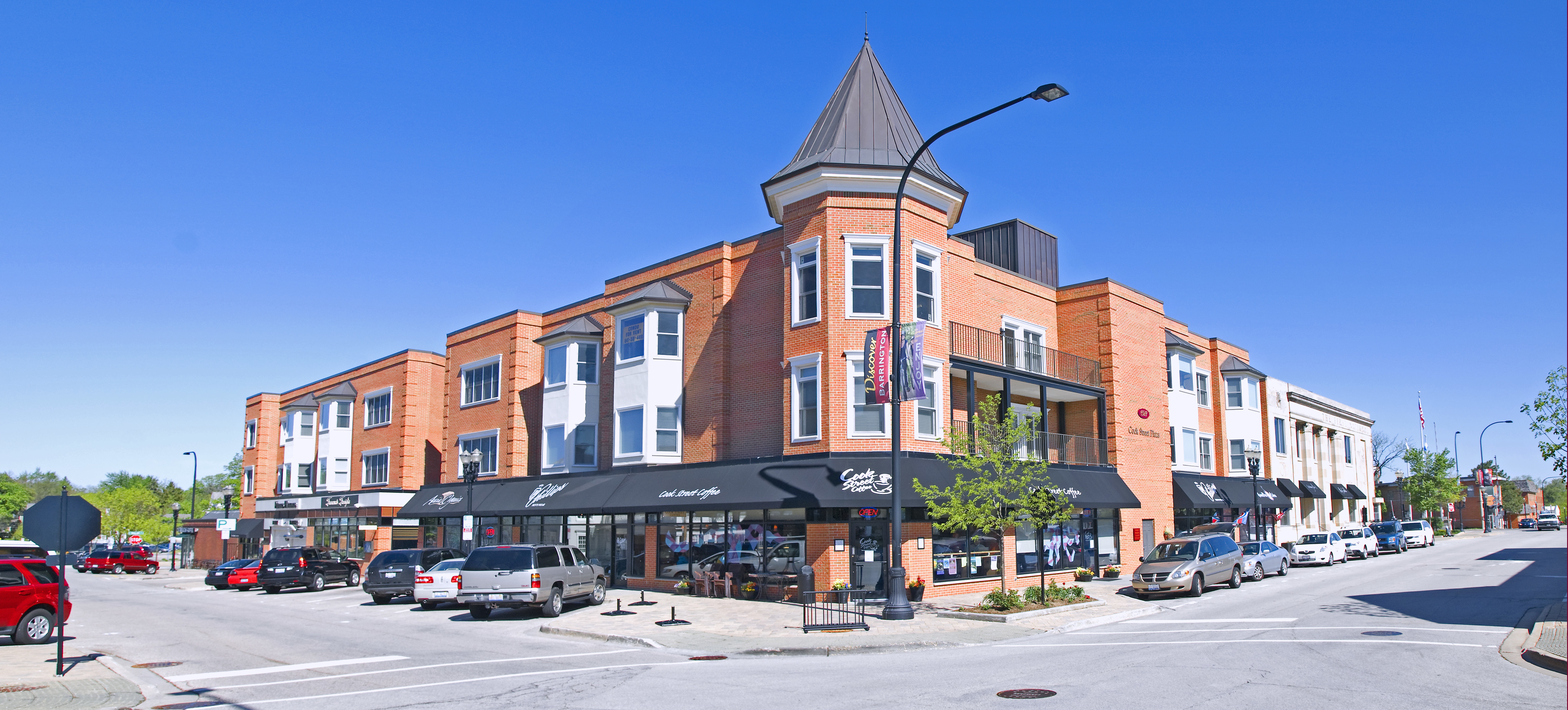 Downtown Barrington (IL) -- Cook Street at East Station May 2011